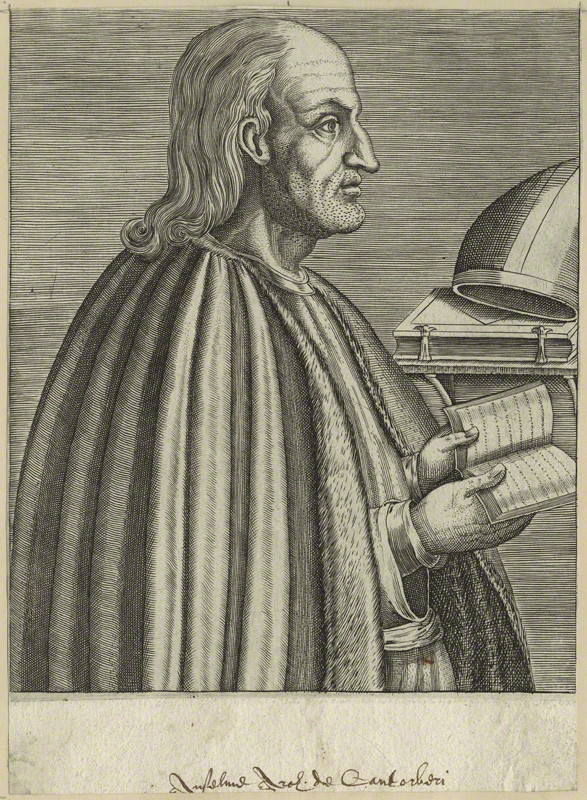 A late-16th century line engraving of St Anselm, inscribed Anselme Arch. de Cantorberi in secretary script. 7 5/8 in. x 5 ½ in. (195 mm x 141 mm) sheet. The predecessor of this image, published 1584.